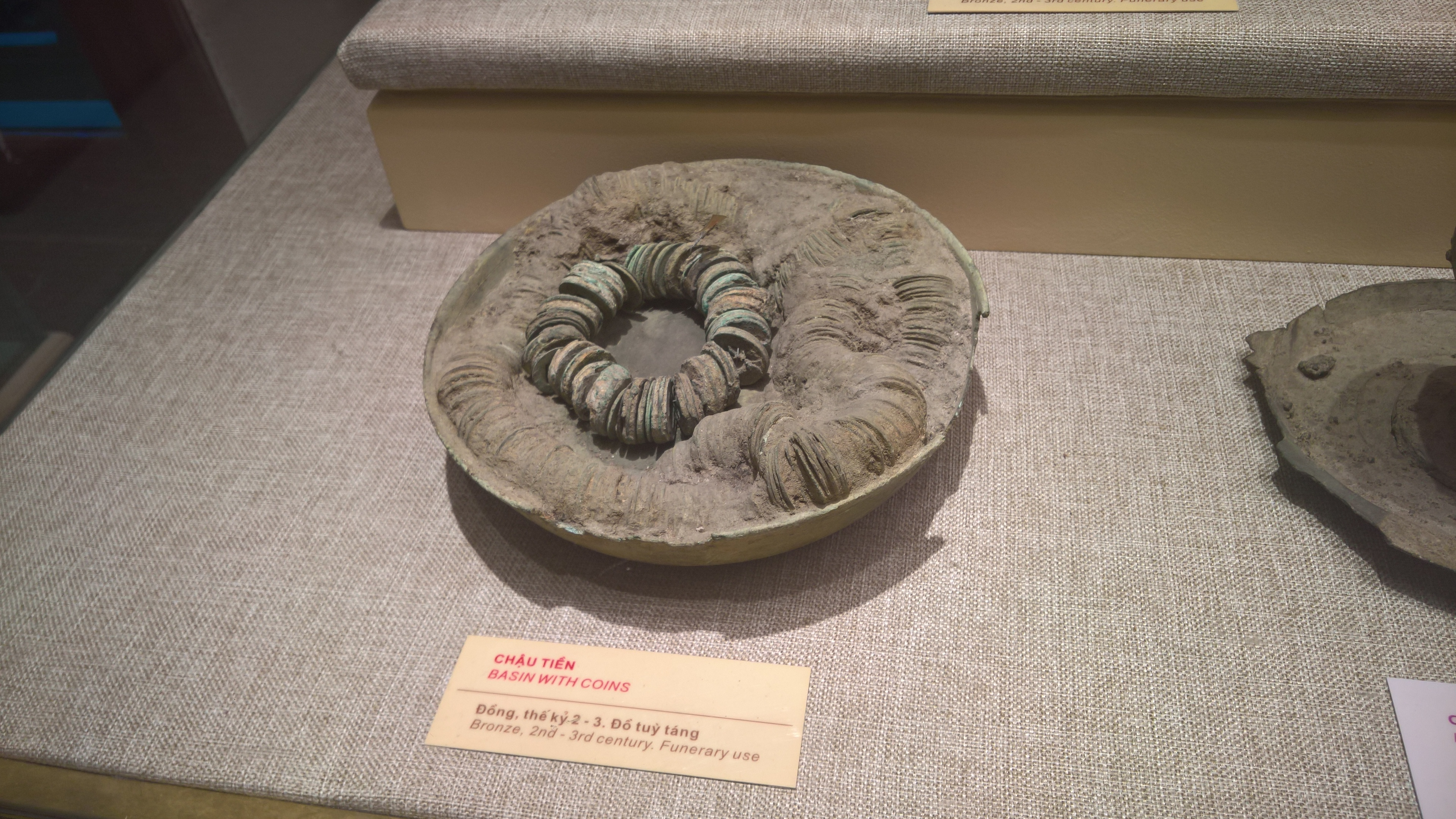 A basin of Oriental cash coins inside of the National Museum of Vietnamese History in Hanoi city.